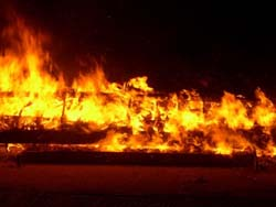 self-made